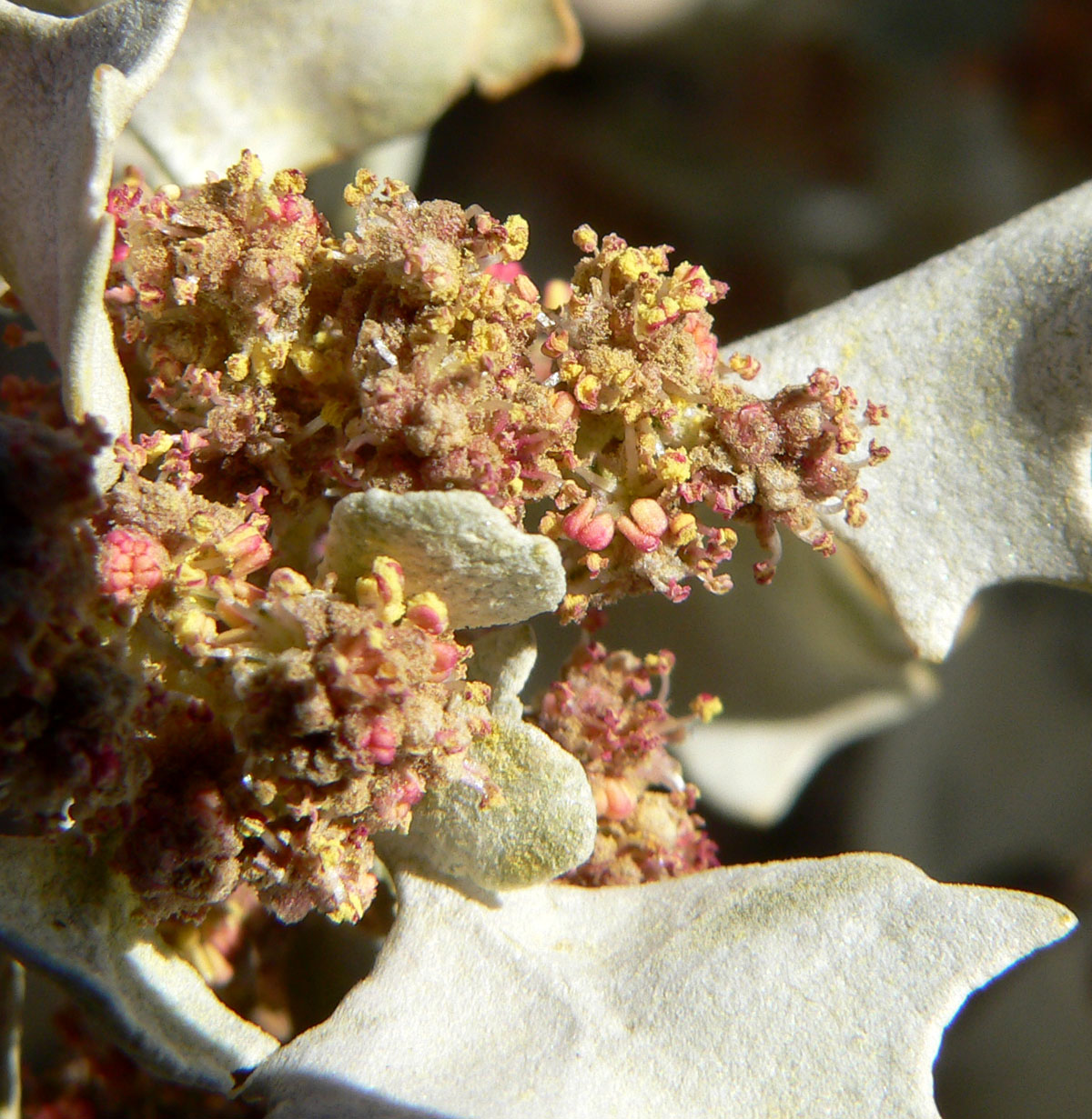 Atriplex hymenelytra at Tecopa, California, southern California